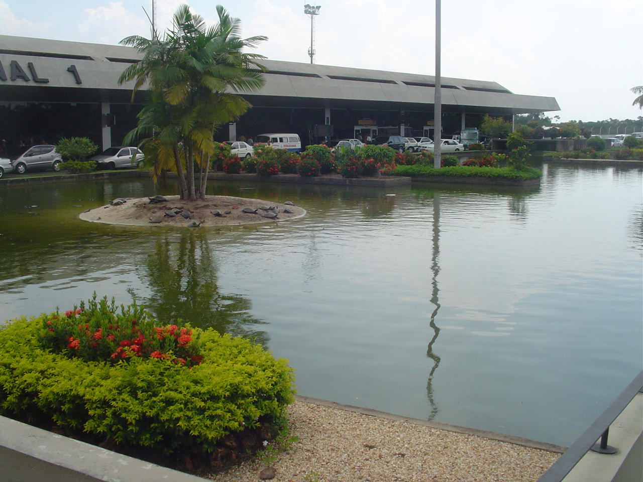 Picture of the International Airport of Manaus, Brazil.